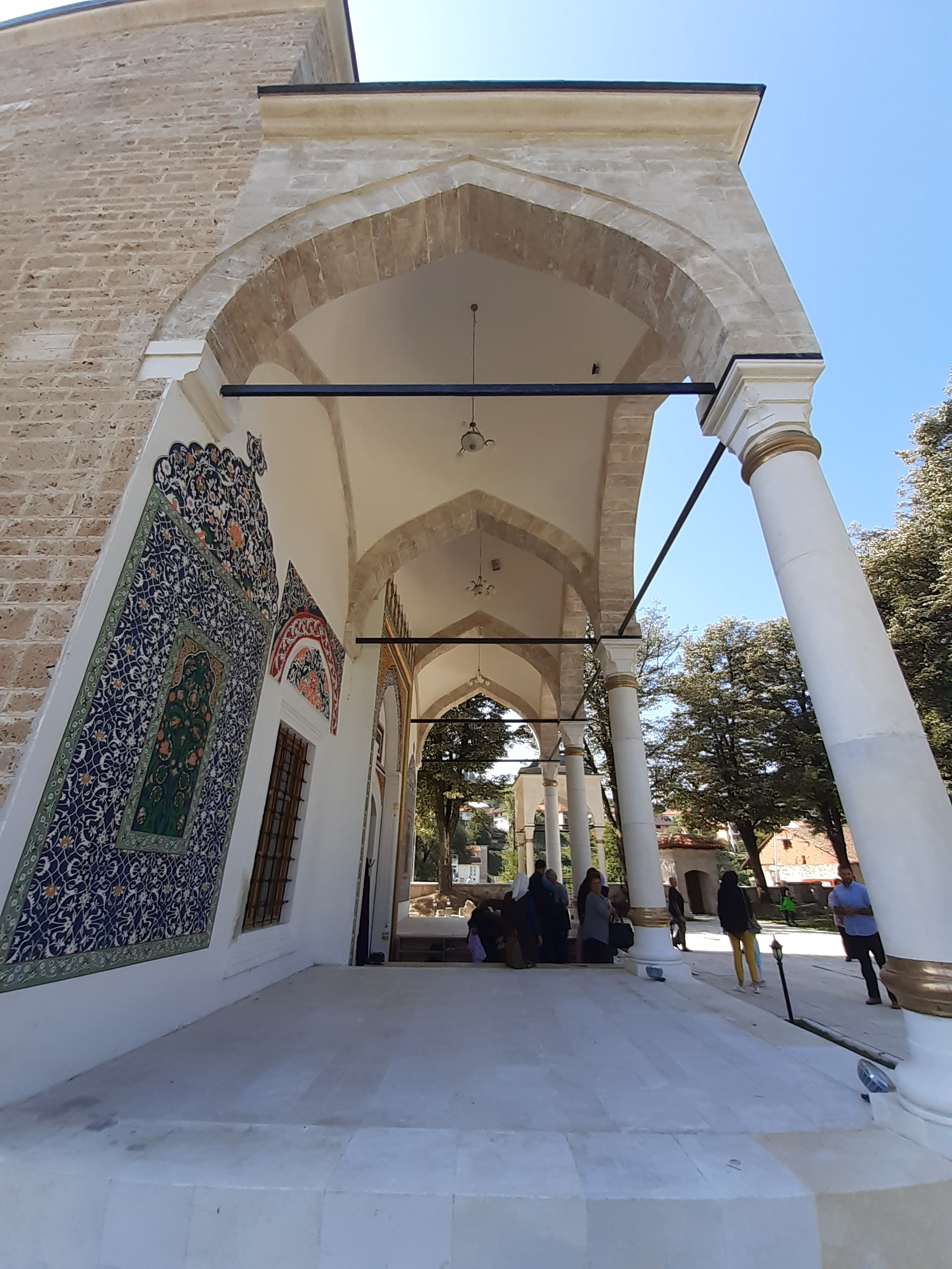 Džamija Aladža u Foči. This image was uploaded as part of Trace of Soul 2019.